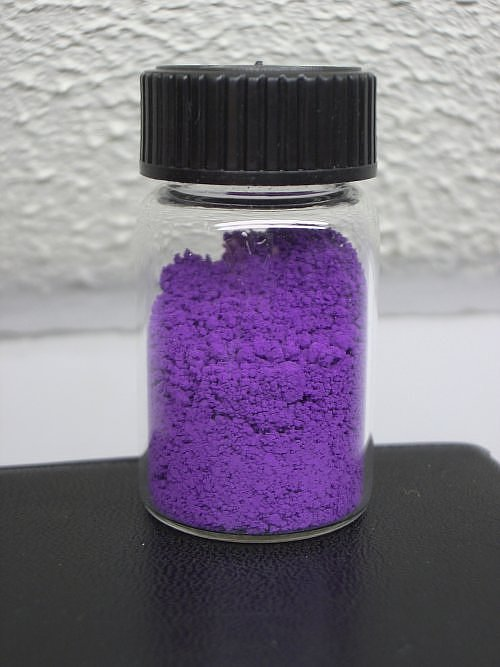 Manganese(III) ammonium pyrophosphate powder, NH4MnP2O7